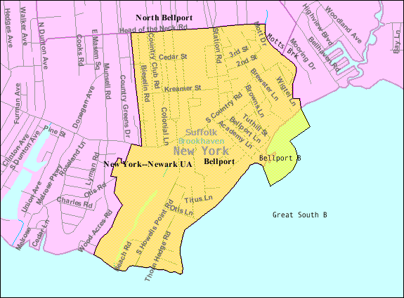 U.S. Census 2000 reference map for Bellport